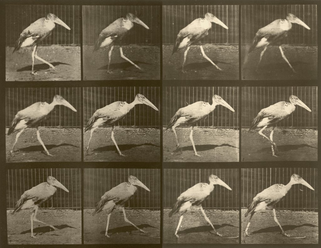 Gait of Leptoptilos dubius - photographic study by Eadweard Muybridge